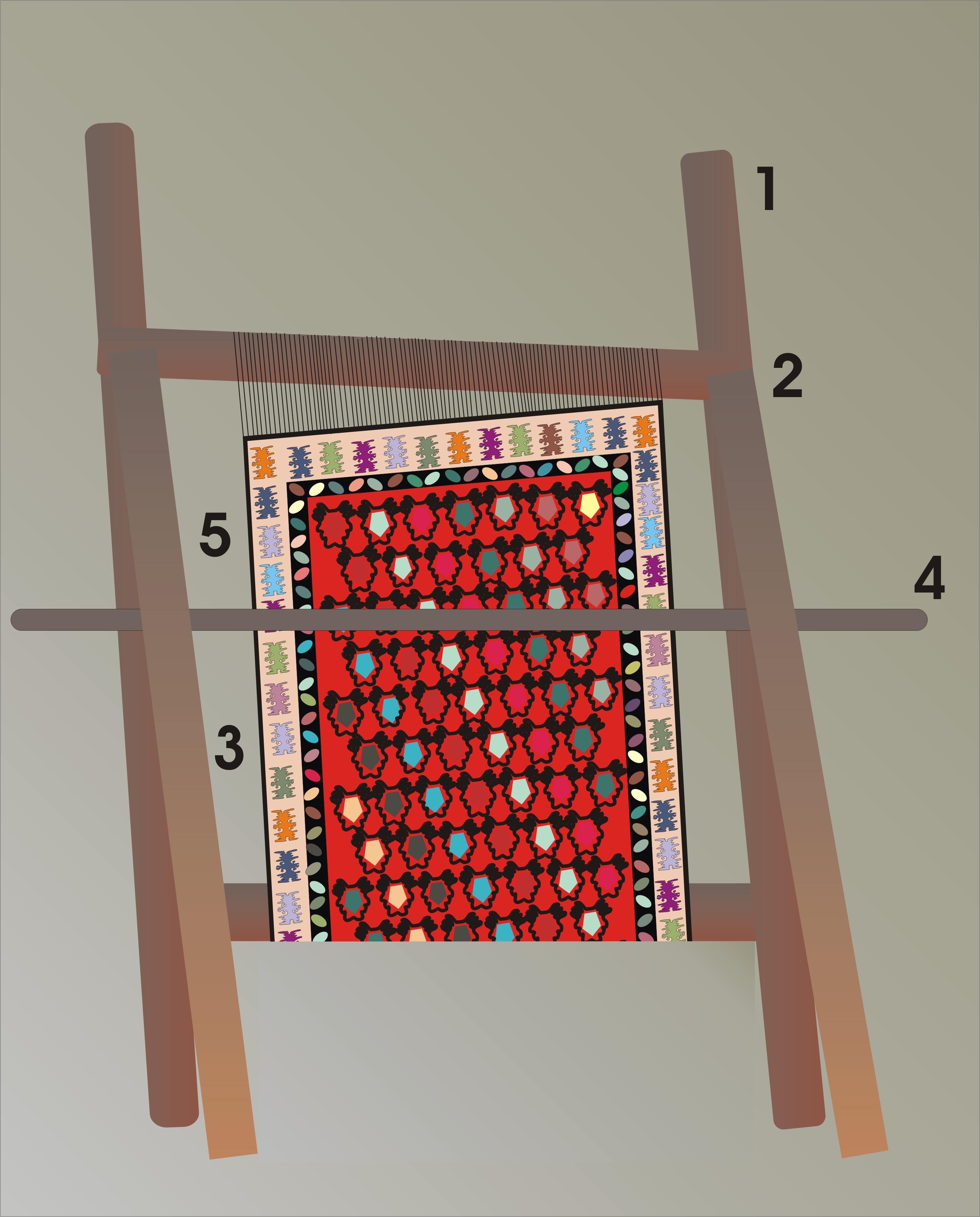 Rollenwebstuhl, Pirotski razboj, Pirot kilim